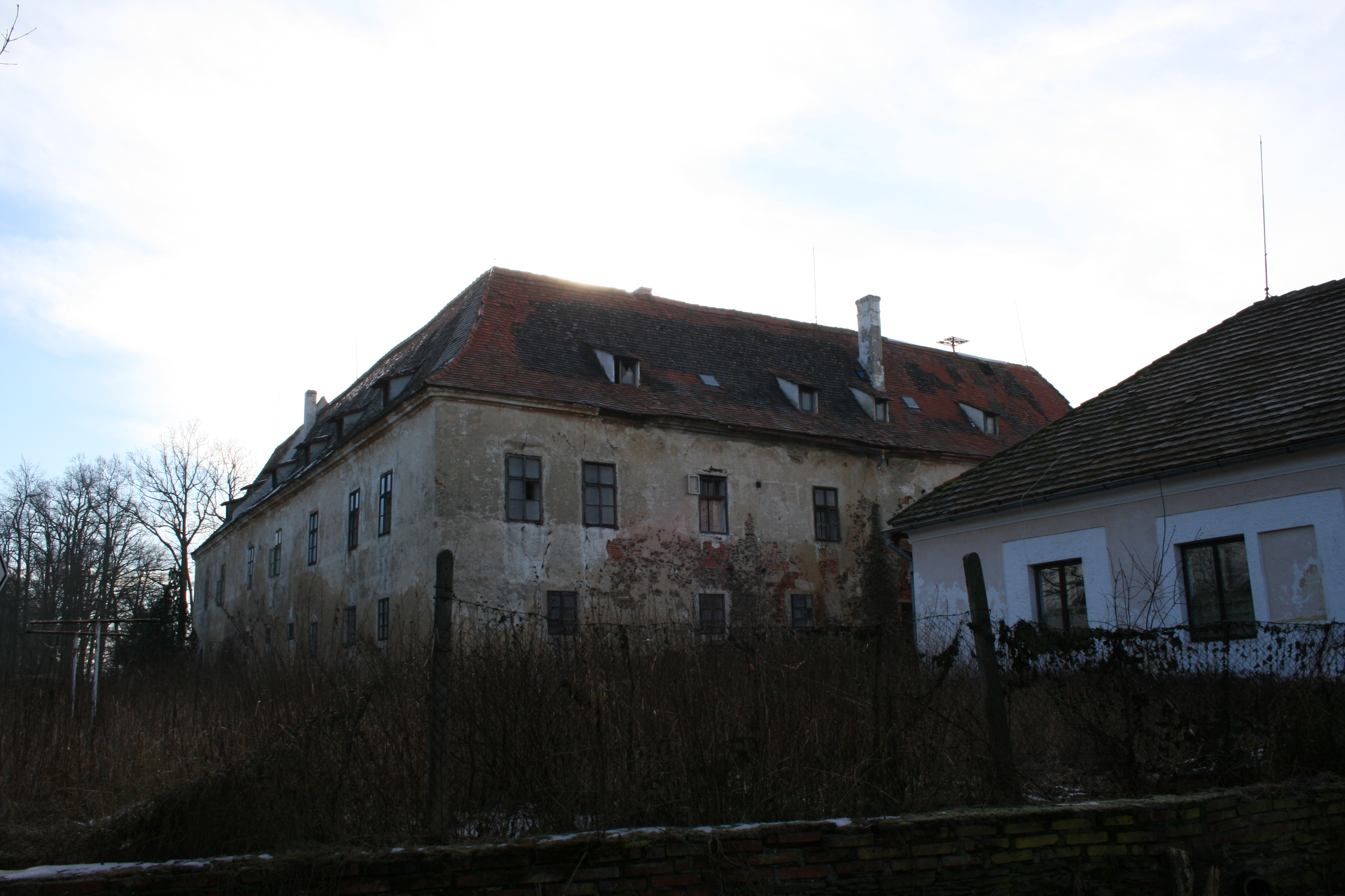 Bzí, part of the Dolní Bukovsko Village in České Budějovice District, Czech Republic. Fort.